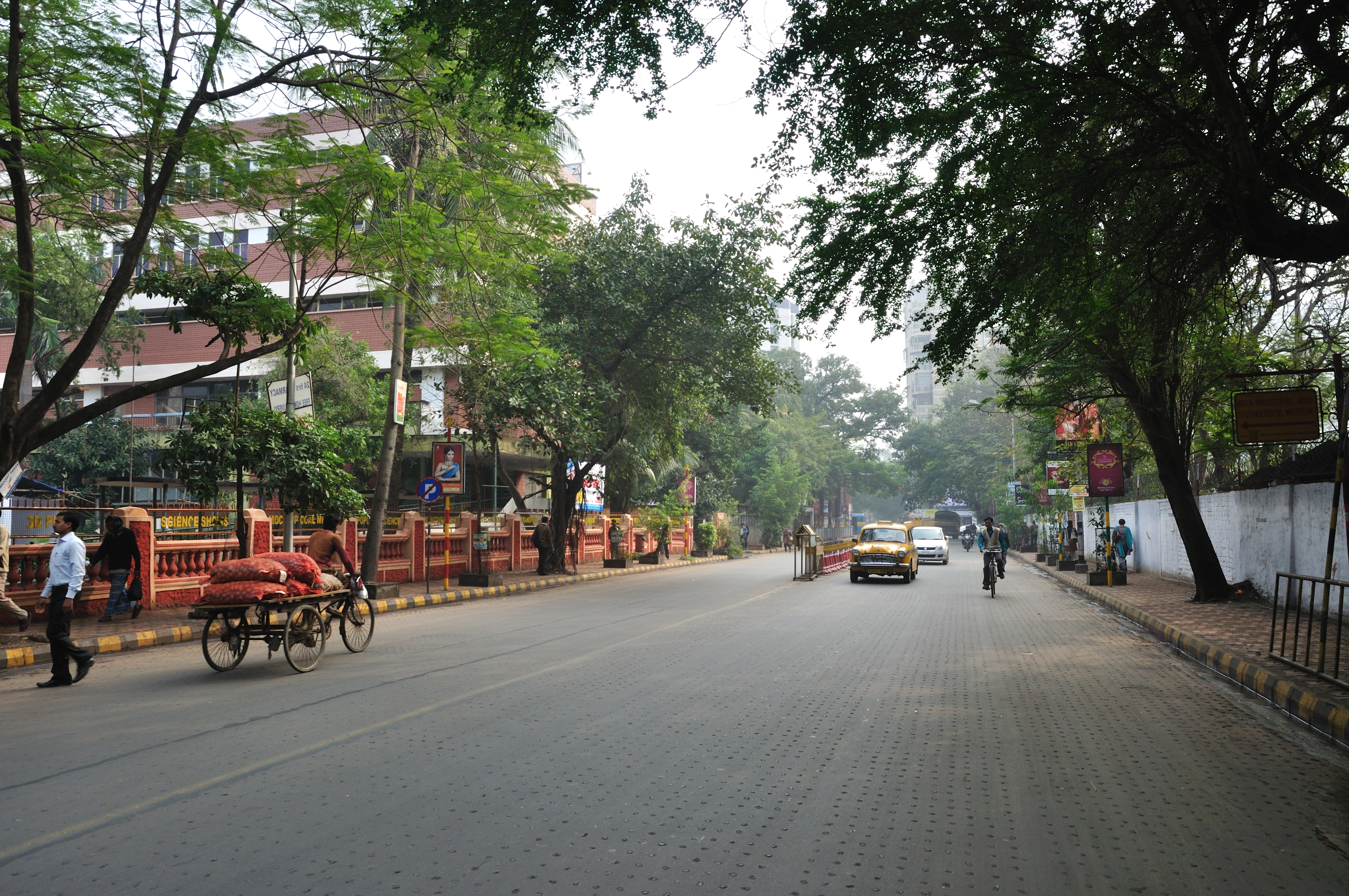 Gurusaday Dutta Road (or Gurusaday Road) is one of the poshest areas of Kolkata. Its old name was Ballygunge Store Road. It was named after Gurusaday Dutt, an ICS officer and a Bengali patriot.